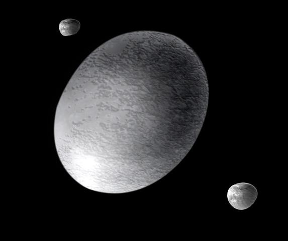 An artist's impression of (136108) Haumea and moons.